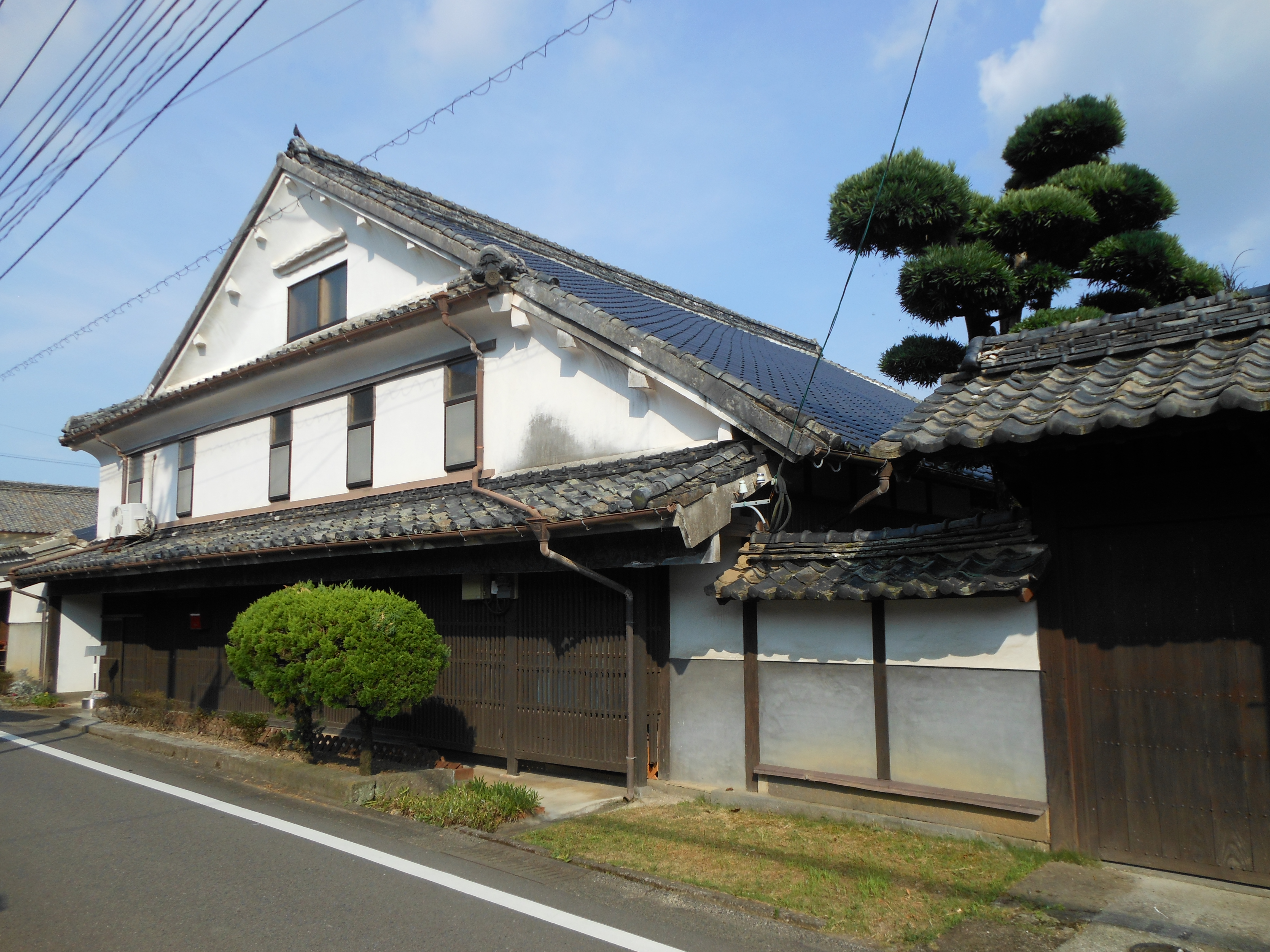 Sekikawa-ke House, a modern office and house complex built in middle Meiji Period, in Kōhoku town, Saga prefecture.